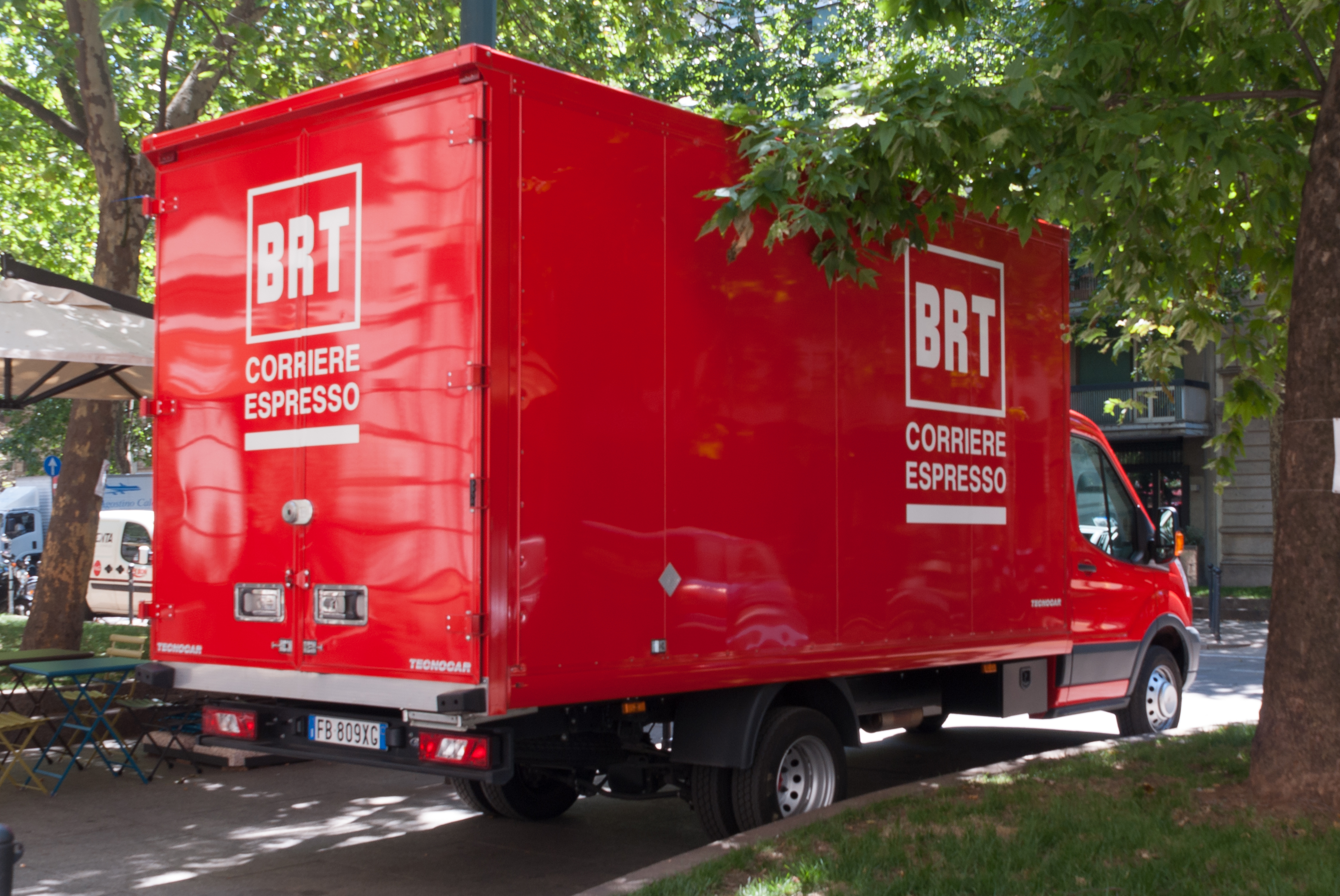 Delivery truck of BRT in Milan